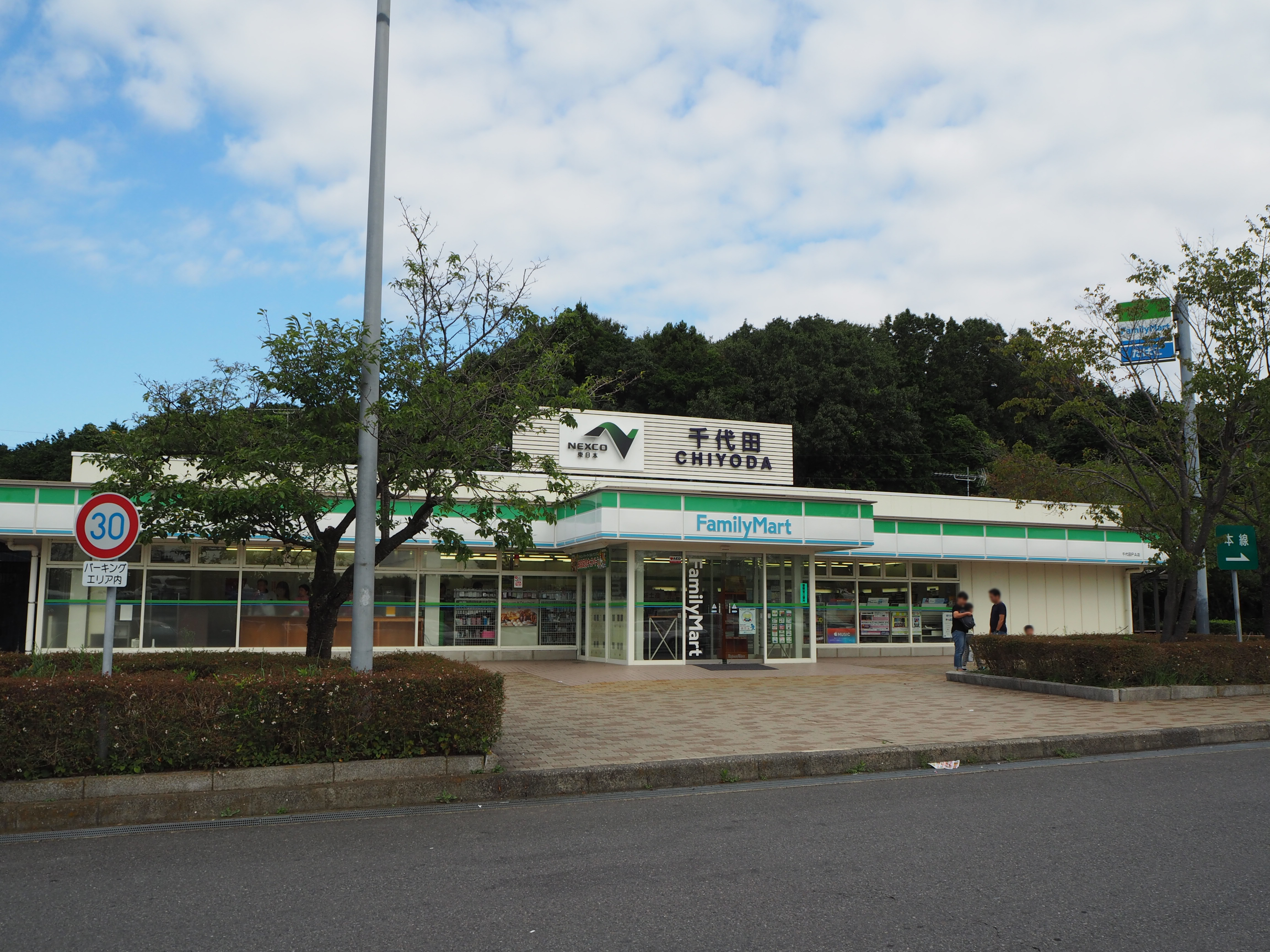 Chiyoda Parking Area